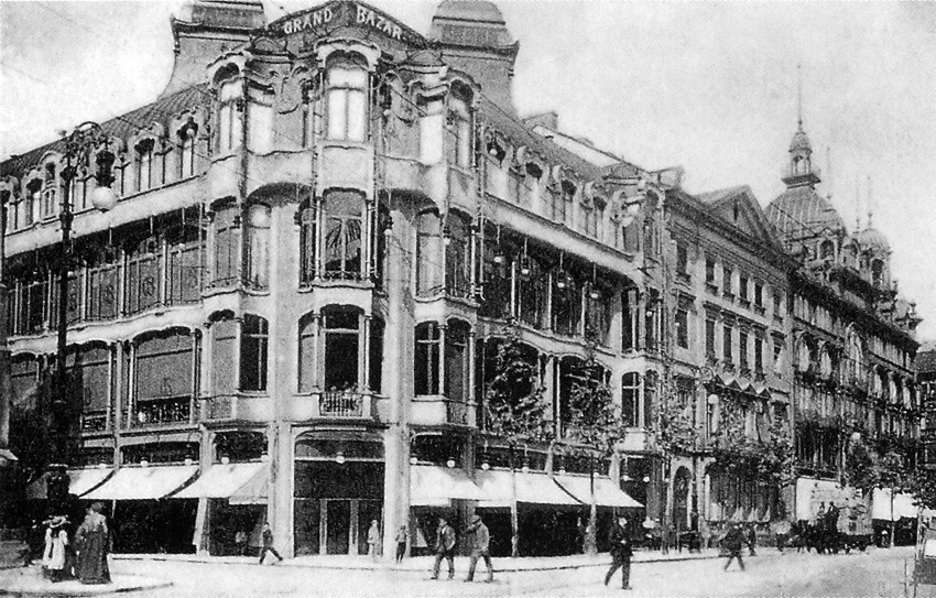 Frankfurt on the Main: Zeil; buildings from left to right: Grand Bazar (1903–1905), Palais Rothschild (1793–1797) and Schmoller (1900)